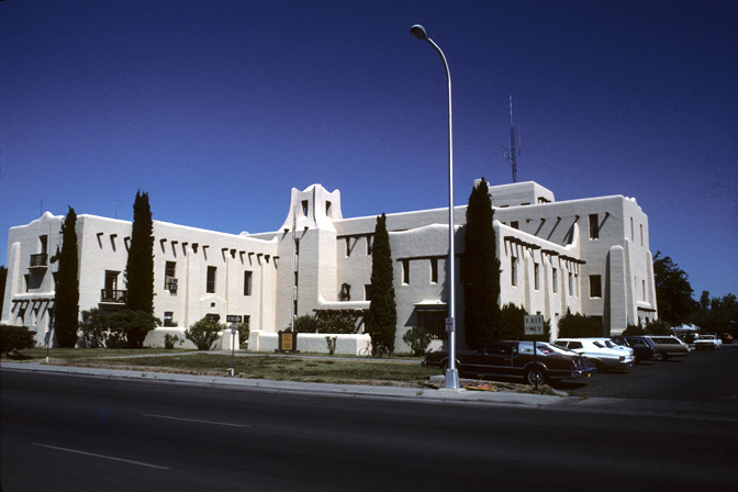 Dona Ana County Courthouse (Built 1937), Las Cruces, New Mexico